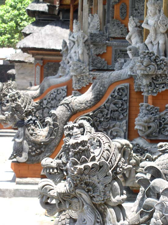 Pura Ulun Danu Batur: This temple honours Ida Batara Dewi Ulun Danu, the goddess of the crater lake, who controls the water for the irrigation systems throughout the island and shares dominion of Bali with the god of Gunung Agung.